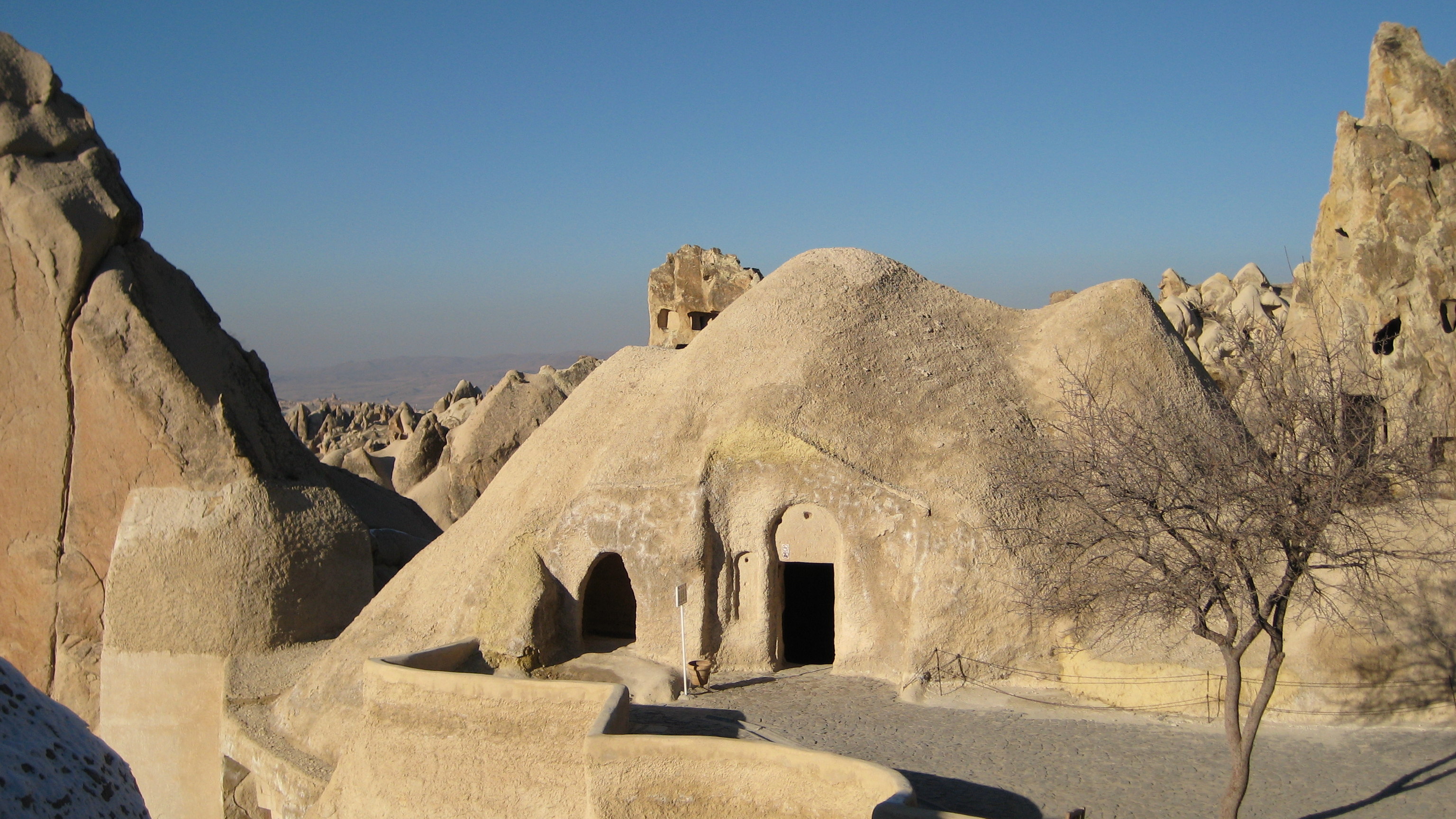 Cave church of S.Barbara in Open Air Museum, Goreme, Cappadocia